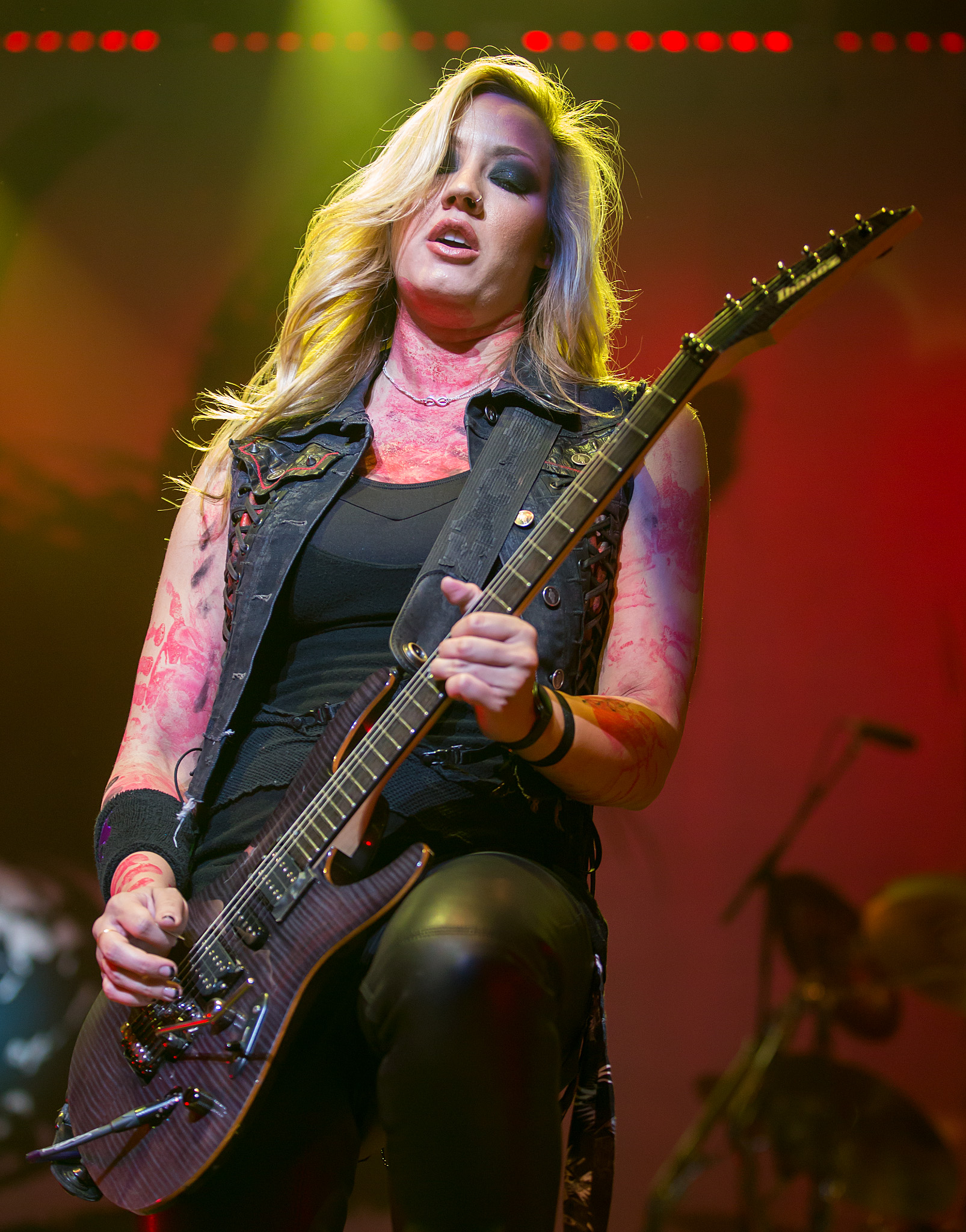 Nita Strauss of Alice Cooper performing in San Antonio, Texas 2015-02-11.